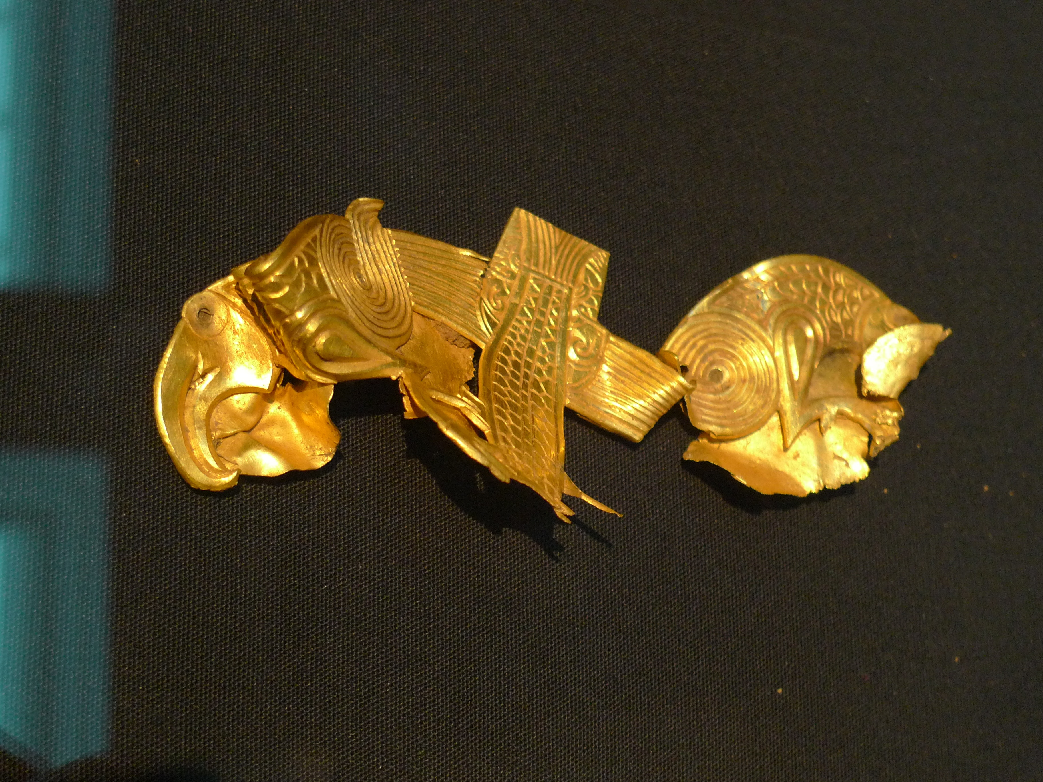 Sheet Gold Plaque, Staffordshire Hoard.